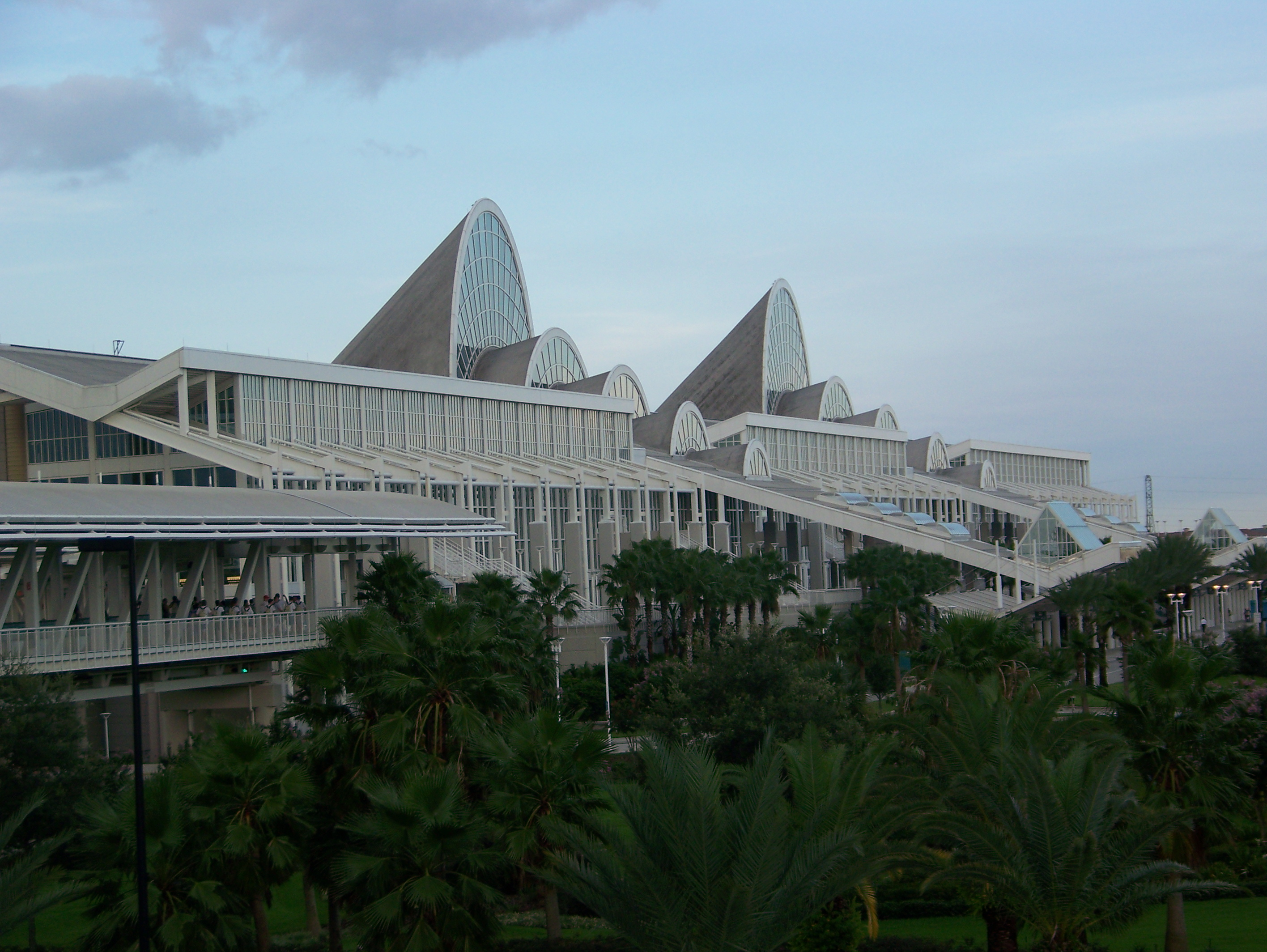 The front of the Orange County Convention Center located in Orlando, Florida.